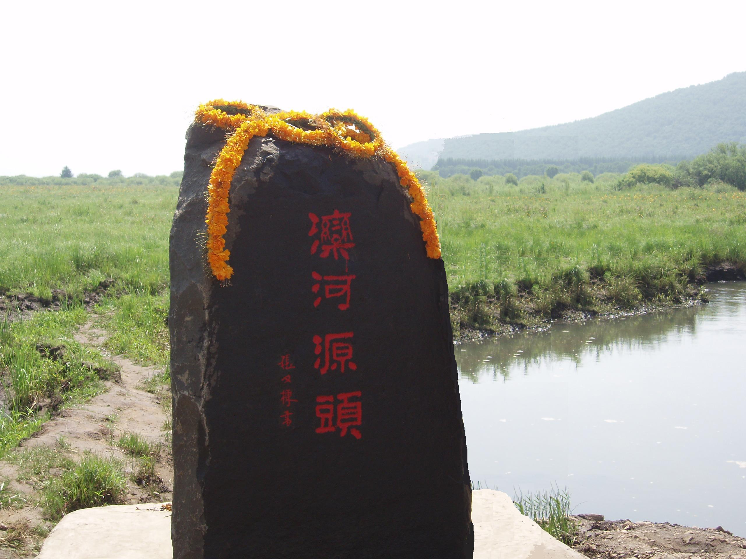 Fountainhead of Luan River in Saihanba park.